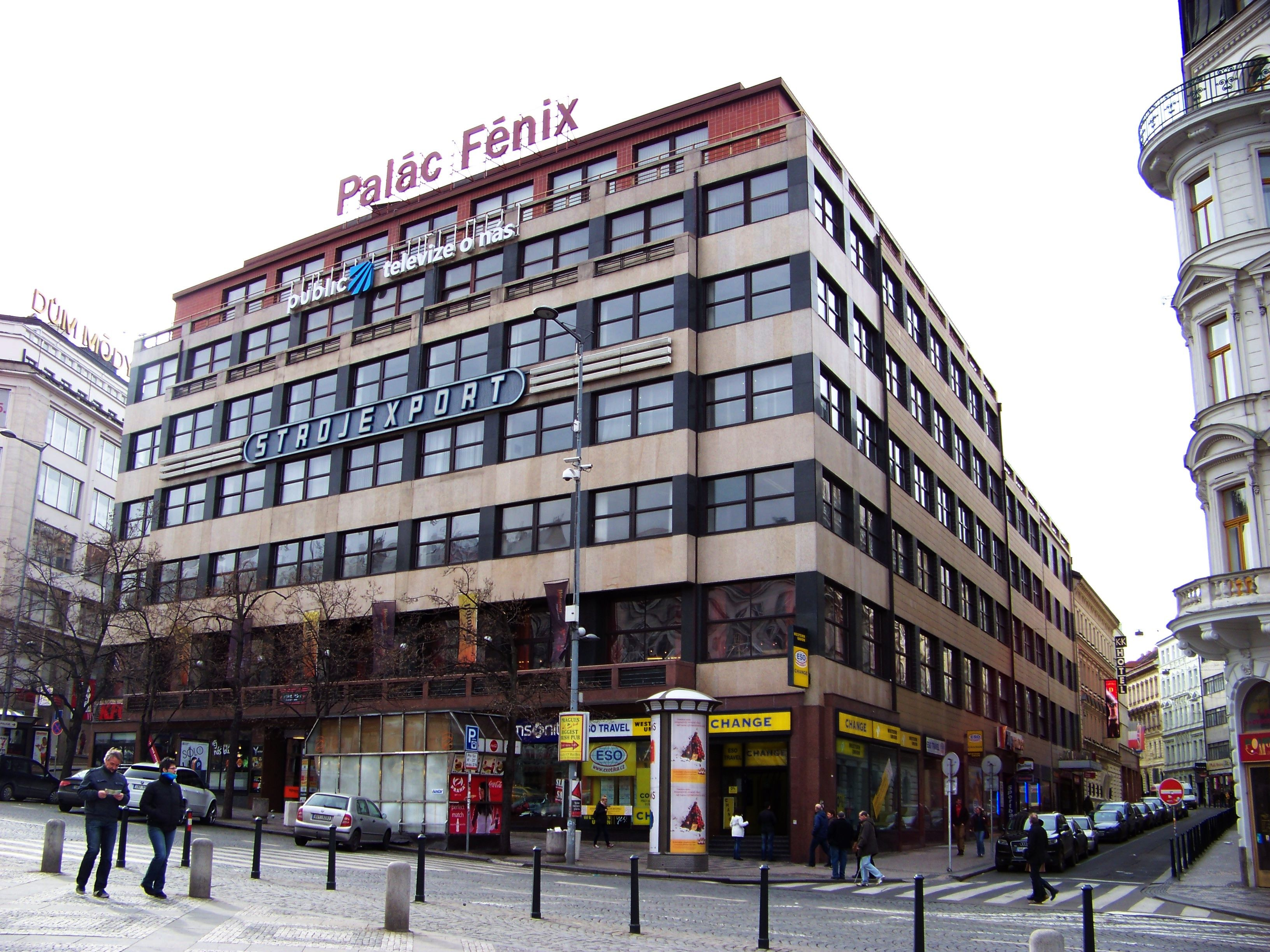 Prague-New Town, the Czech Republic. Wenceslas Square and Ve Smečkách street, Fénix Palace.